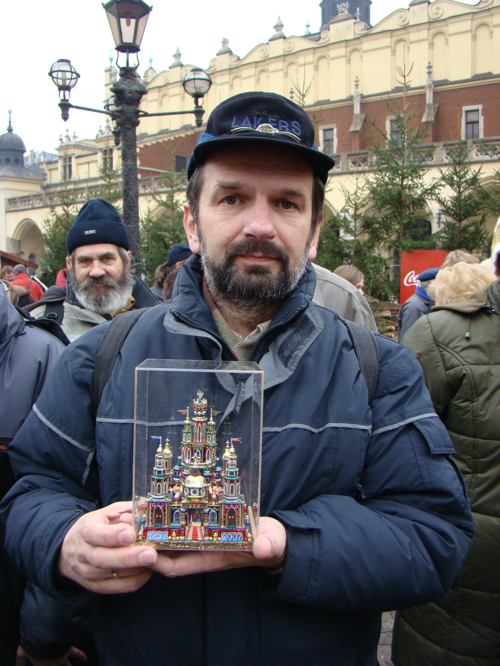 Wiesław Barczewski - krakow cribmaker